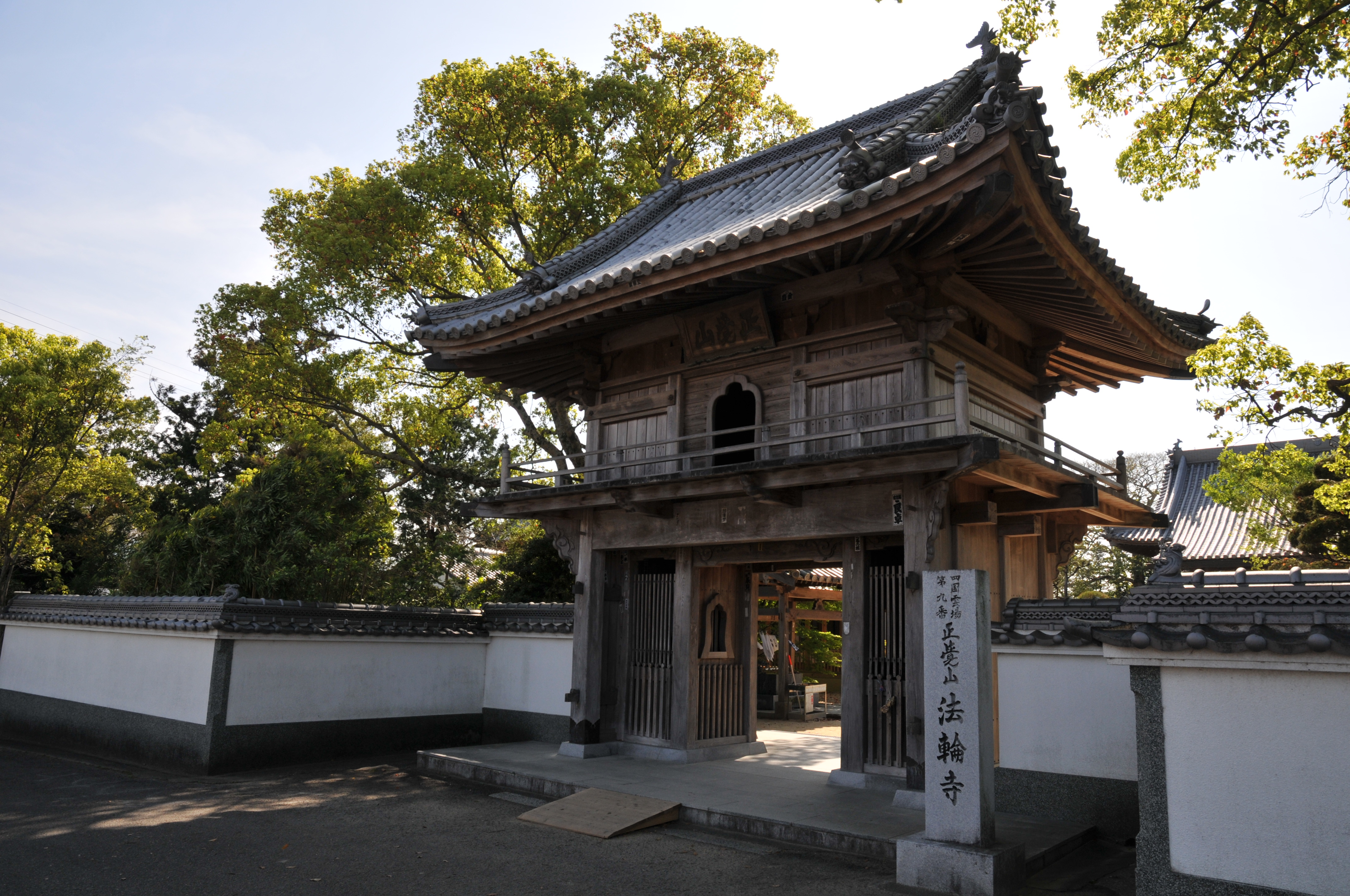 Temple gate, Horin-ji